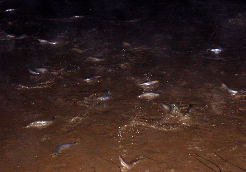 Many California Grunion (Leuresthes tenuis) on the beach in San Diego, California, USA.